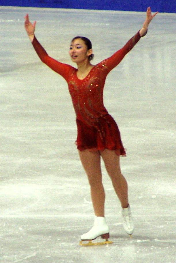 Miki Ando at the world championships 2004 in Dortmund